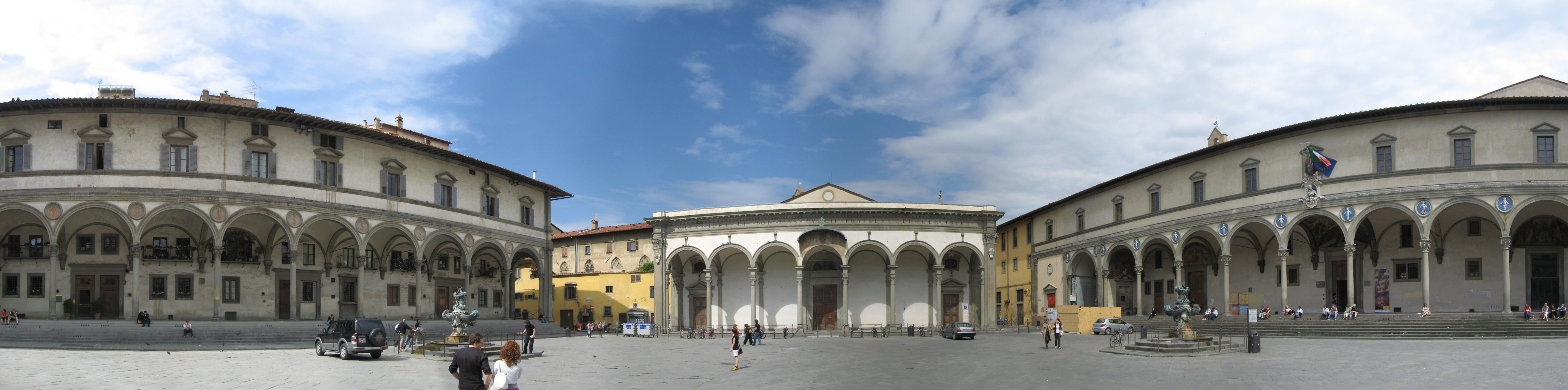 Piazza Santissima Annunziata.